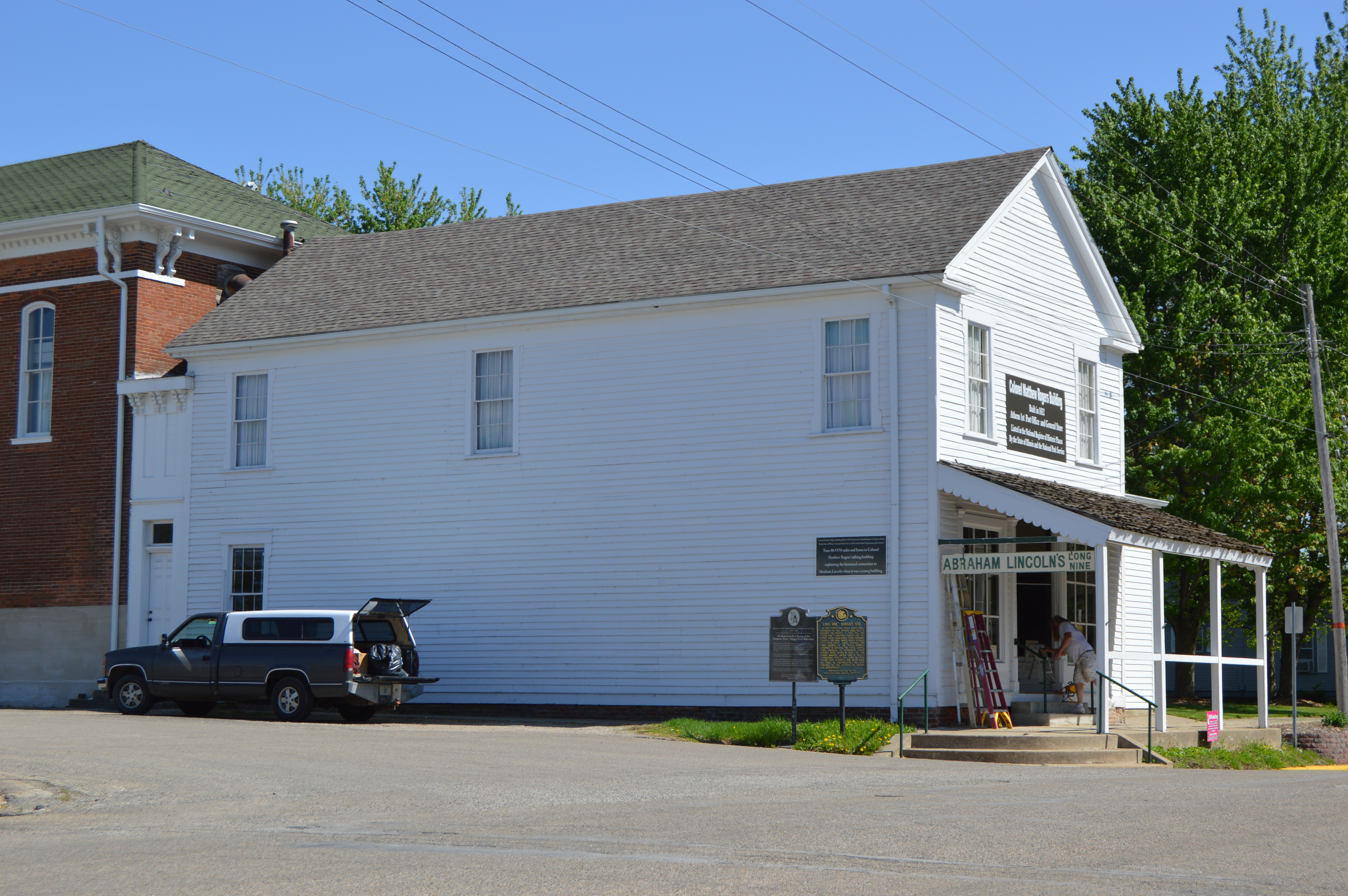 Northern side and front of the Col. Matthew Rogers Building, located at 200 S. Main Street in Athens, Illinois, United States. Built in 1832, it is listed on the National Register of Historic Places.